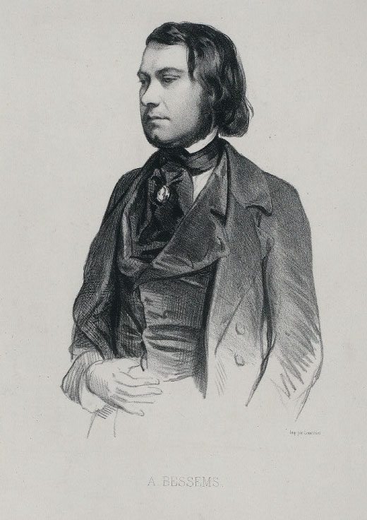 The engraving portrait of violinist Antoine Bessems (1806-1868)